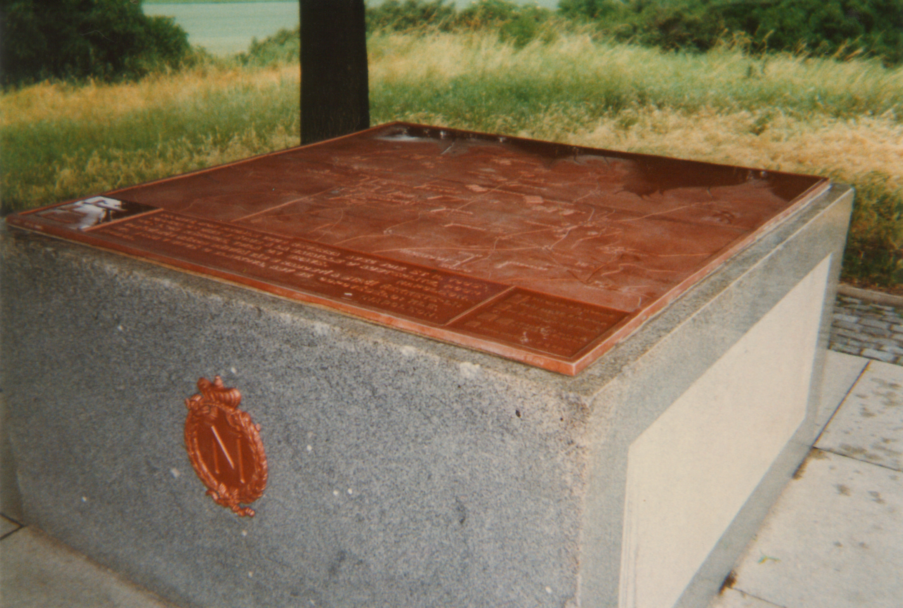 Žuráň - the summit of the hill, Brno-Country District, Czech Republic. A new map of the Austerlitz battlefield.